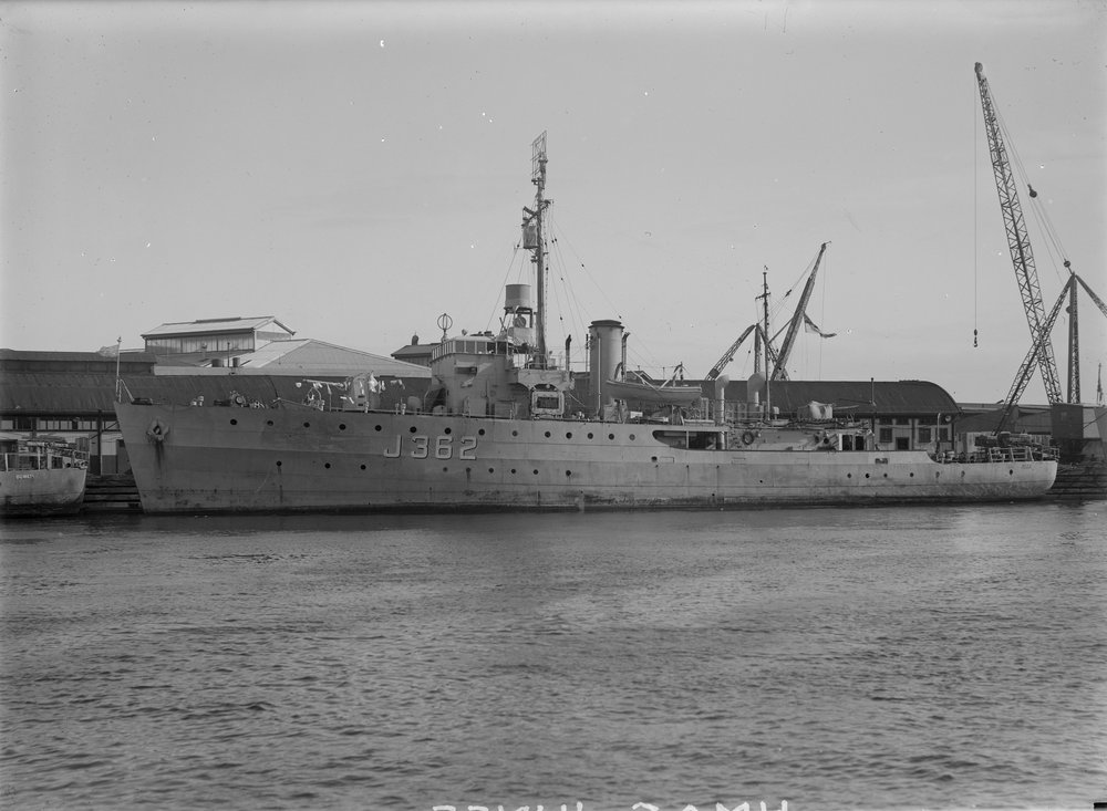 HMAS Junee.